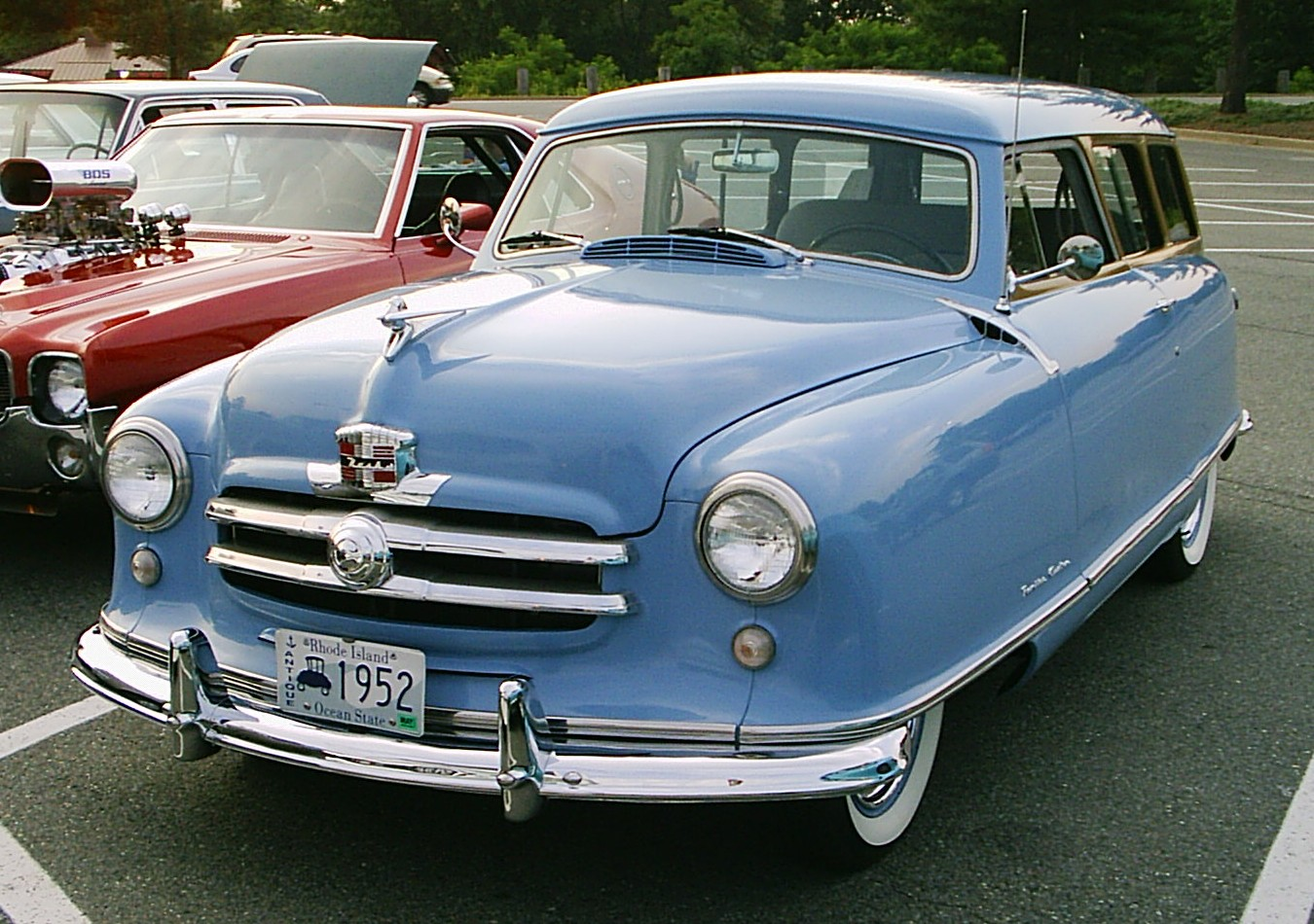 Nash Motors vehicle - 1952 Nash Rambler - blue 2-door wagon, front view